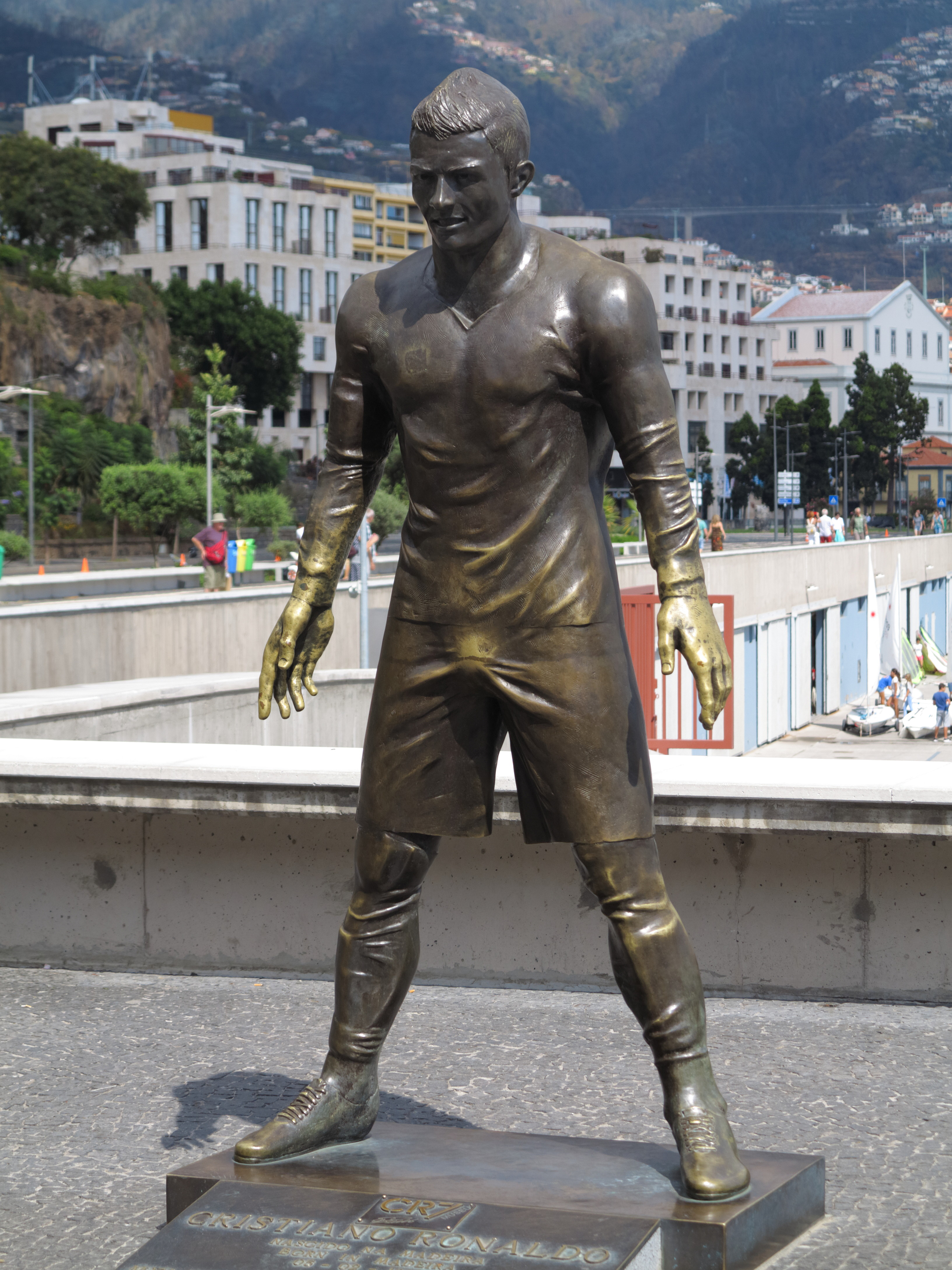 Funchal: the statue of Cristiano Ronaldo by Madeiran sculptor Ricardo Velosa.